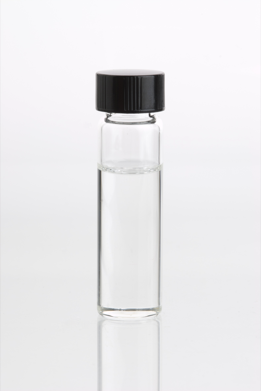 Glass vial containing Eucalyptus Globulus Essential Oil